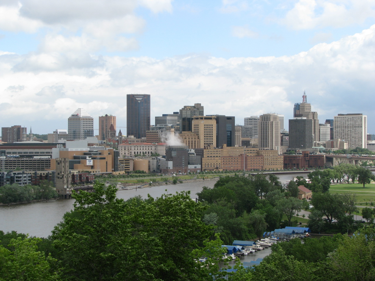 Saint Paul skyline and Lake of the Isles from the West Side neighborhood: left to right the seven tallest buildings: The Pointe of Saint Paul, the first major high-rise in St. Paul to be converted to condominiums, in early 2003; Travelers Building, the tallest building in downtown St. Paul without direct access to the city's skyway system; The tallest building is the former Minnesota World Trade Center, which was renamed Wells Fargo Place on May 15, 2003; Landmark Towers features offices on floors 1-19. The top floors of the building are condominium units; First National Bank Building was the tallest in St. Paul from 1930 until 1986. The tower atop the building supports a large red flashing "1st" which can be seen for many miles in all directions; Behind and left is the Jackson Tower at Galtier Plaza which was the tallest building in St. Paul for one year, until the 1987 completion of Wells Fargo Place; Far right, The Kellogg Square Apartments is the tallest all-rental apartment building in St. Paul.